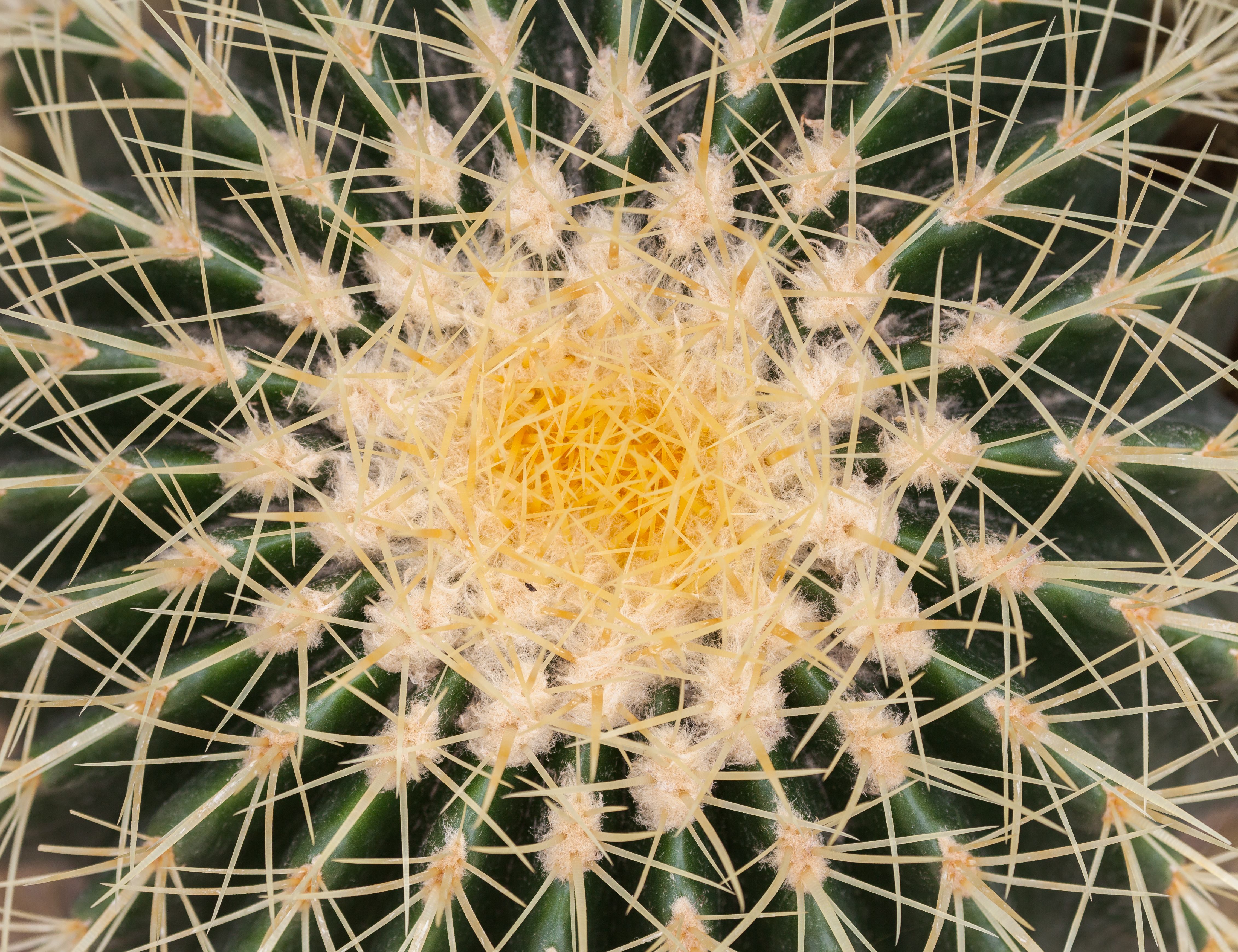 Golden Barrel Cactus (Echinocactus grusonii), Munich Botanical Garden, Germany